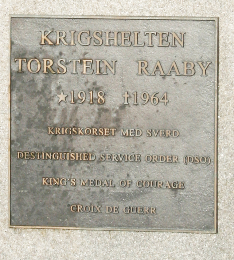 Text on memorial of WWII hero Torstein Raaby (Dverberg, Andøya, Norway)